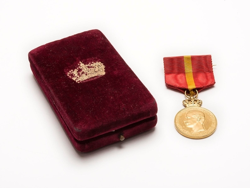 Bilde av gjenstand fra Nordmøre museum sine samlinger